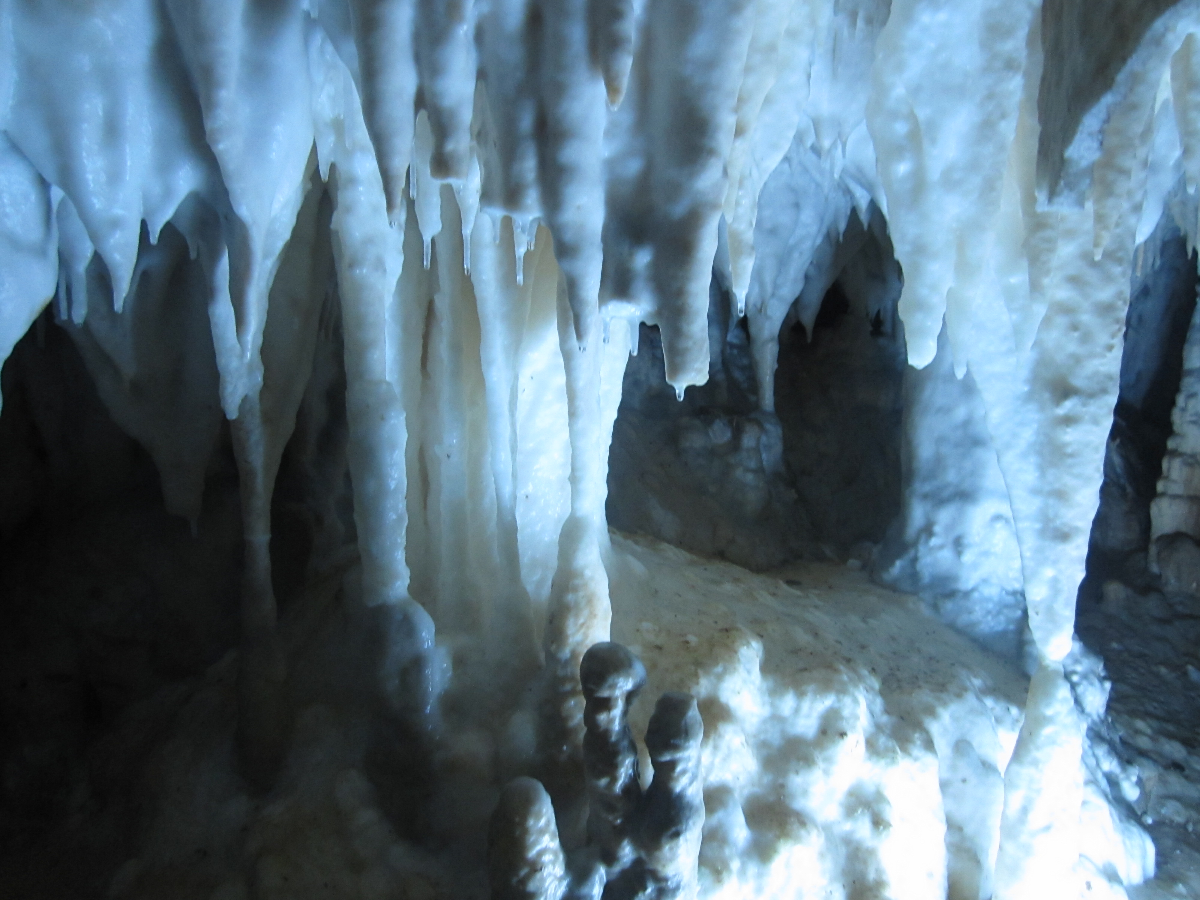 СП317